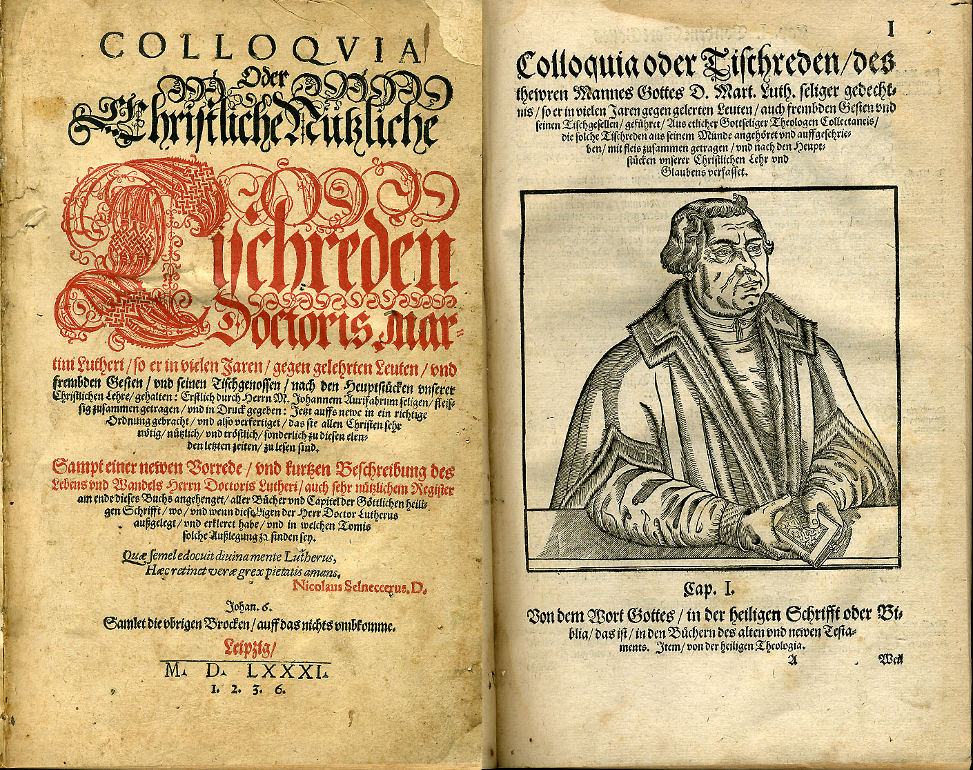 Titlepage and Portrait from a 1581 edition of Martin Luther's writings in German.